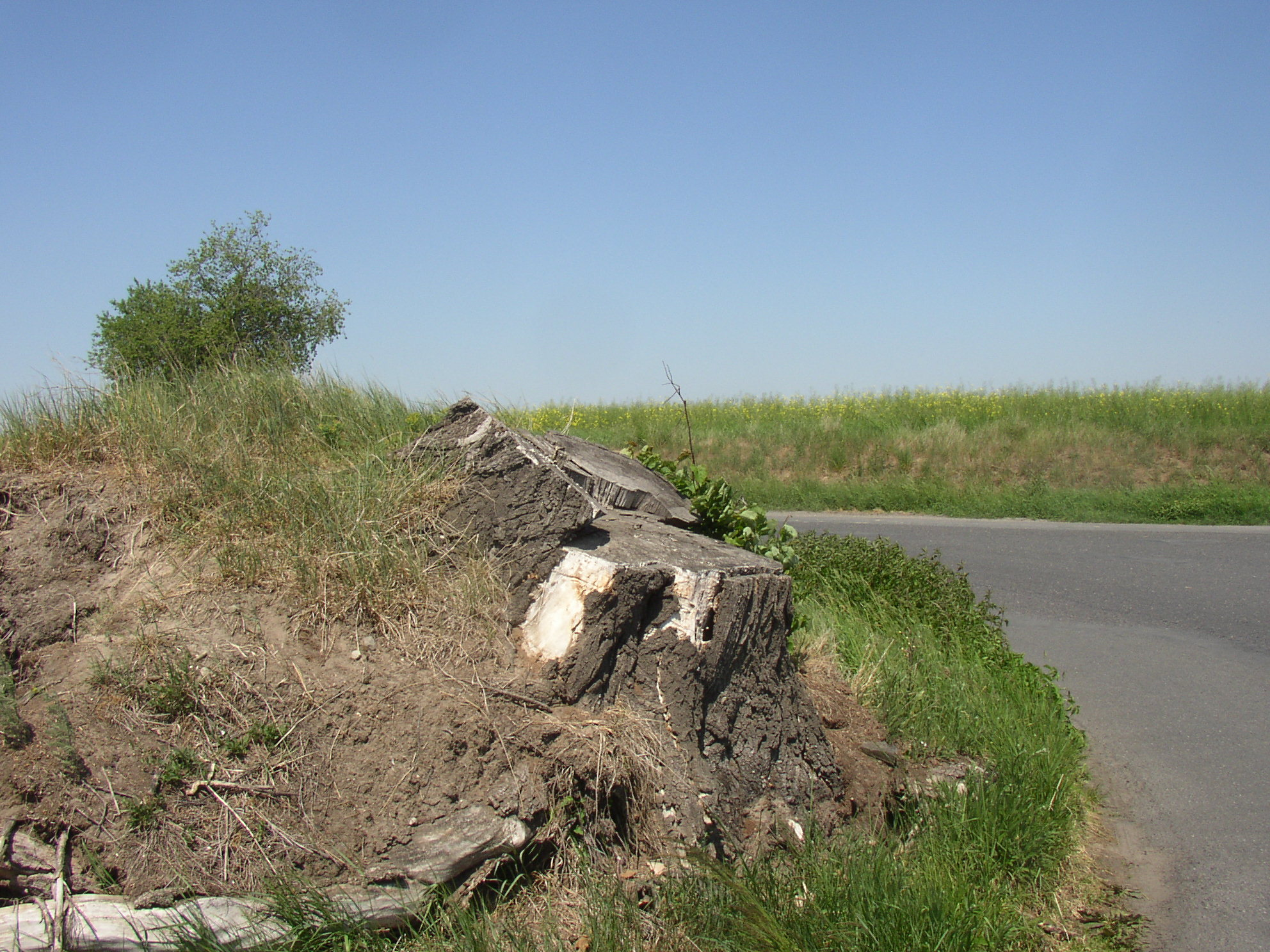 Stump of Žižice Lime at Žižice/Drnov/Zvoleněves crossroads southeast of Žižice, Kladno District, Czech Republic. This is a remnant of a protected tree, uprooted by storm Emma in March 2008, The trunk is on display at common in Žižice.